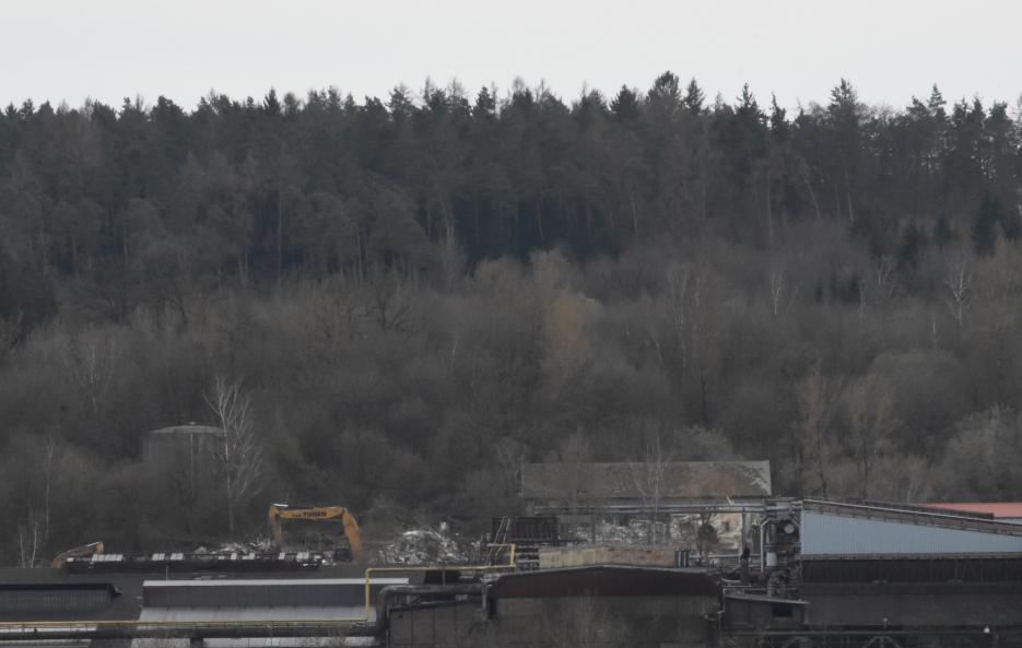 Maxhuette Kraftwerk Abriss März 2020